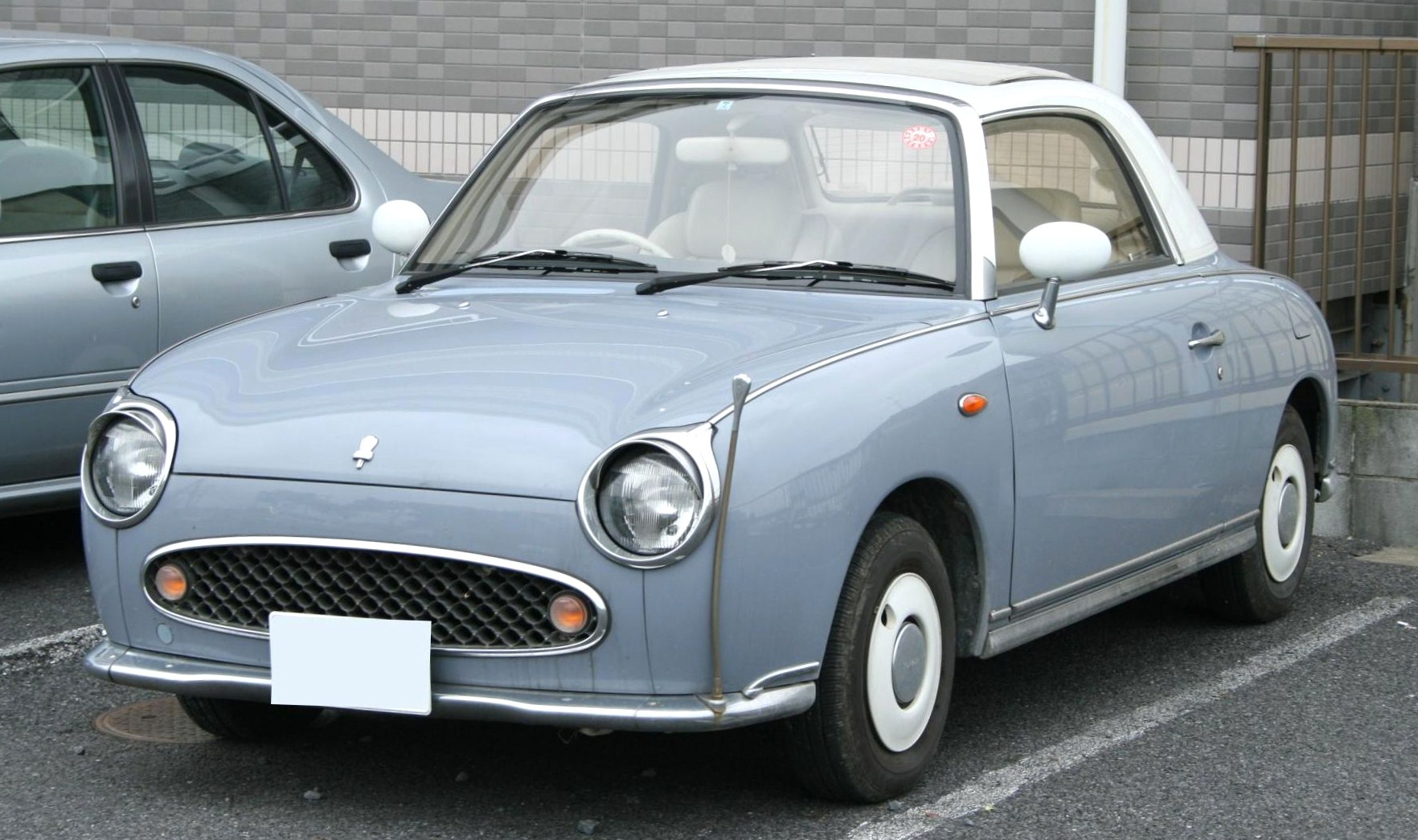 Nissan Figaro, Good Design Award 1991.